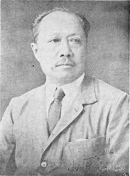 Prince Svastivatana Visishta. Son of King Mongkut of Siam.